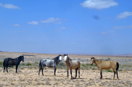 Horses, colloquially referred to as Sunaari, possibly with some Arabian ancestry, seen here in the arid plains of Dhahar, Maakhir, Somalia